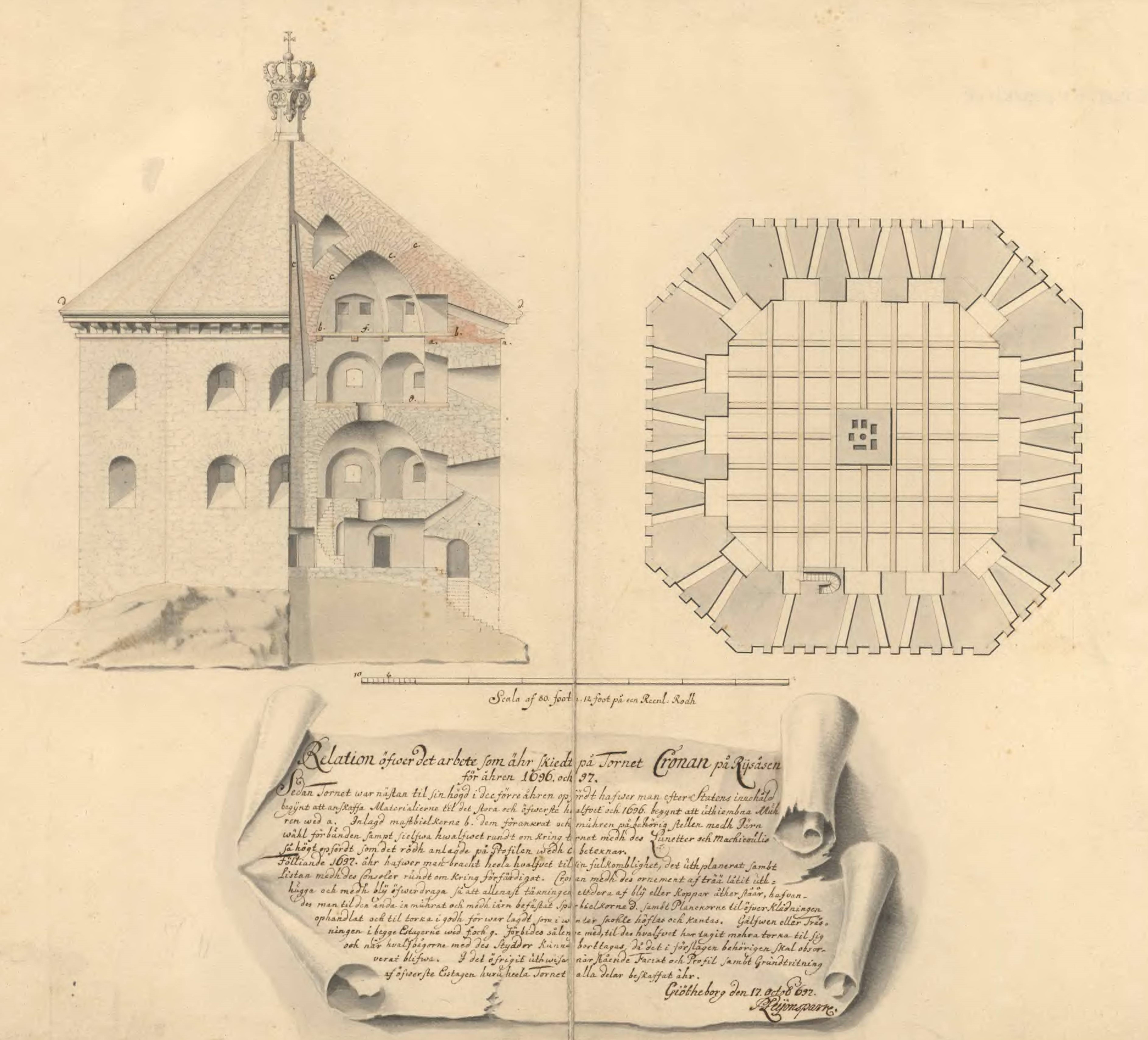 Drawing of the work done (marked in red), at the sconce Kronan (the Crown), at Gothenburg Sweden, in the years 1696-1697.